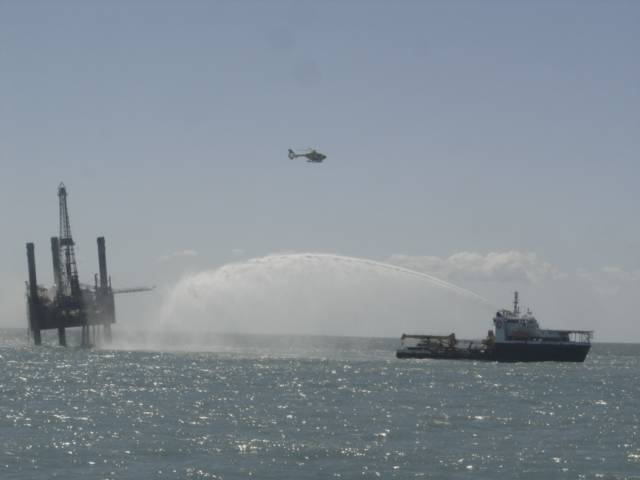 Kab 101 oil platform under the Usumacinta Jackup rig being sprayed by the vessel CABALLO de MAR